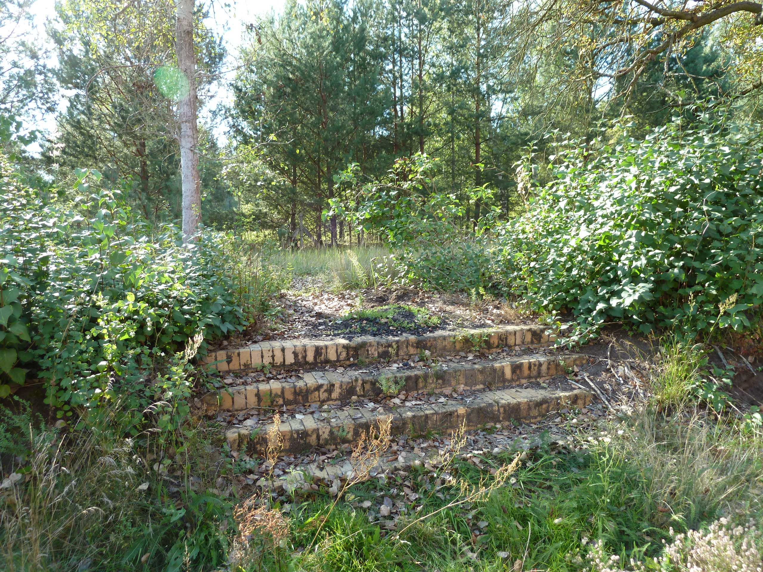 Former Jamlitz railway station, stairs